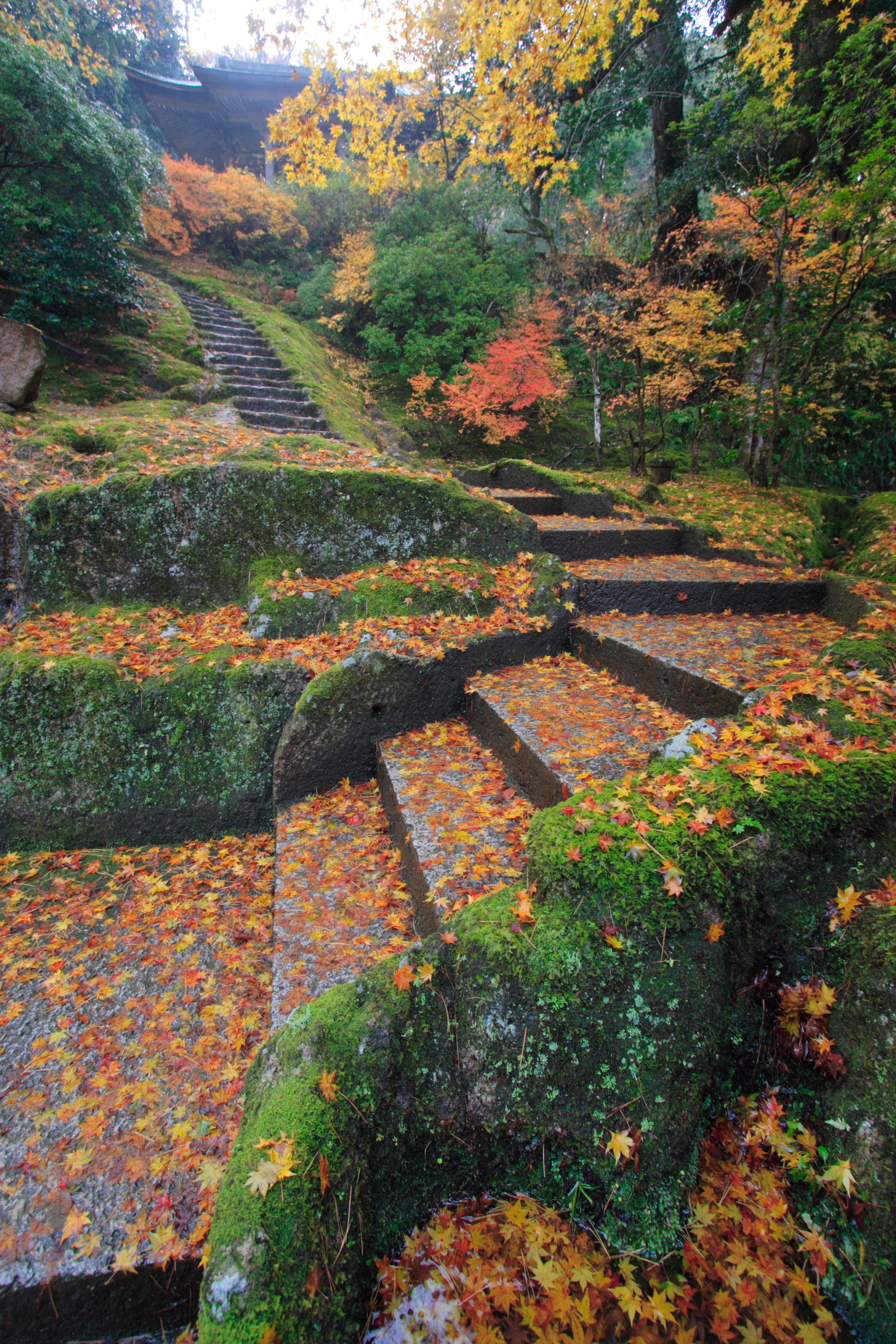 The old Nata temple (那谷寺) in Komatsu city, Ishikawa Prefecture, Japan. The view of autumn colour of Acer palmatum (Japanese maple) leaves.